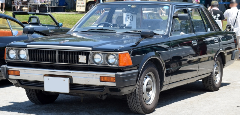 Nissan Cedric Standard